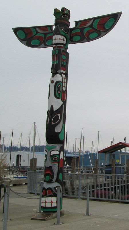 Totem Pole at the harbor in Port Orchard Washington carved by Makah tribe member from Neah Bay